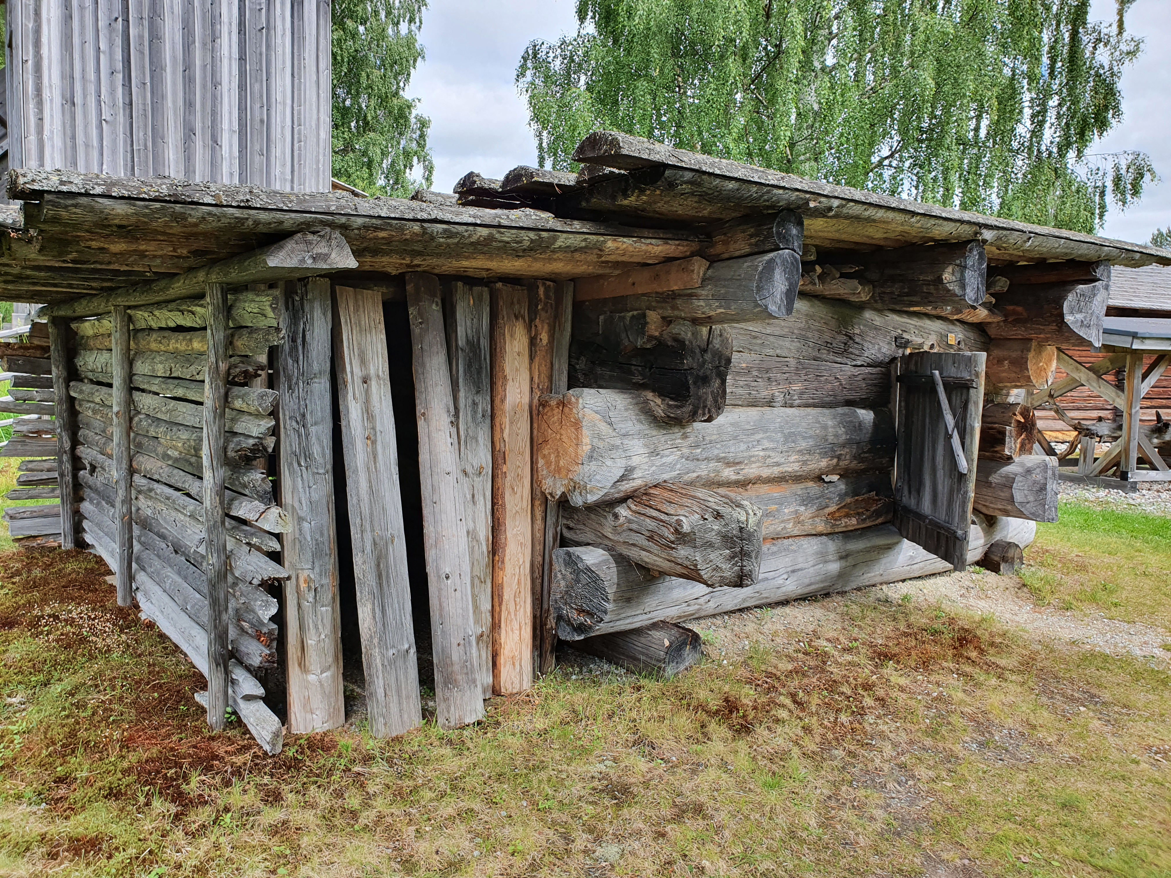 A wooden fishing or hunting hut in the Pielinen museum in Lieksa, Finland